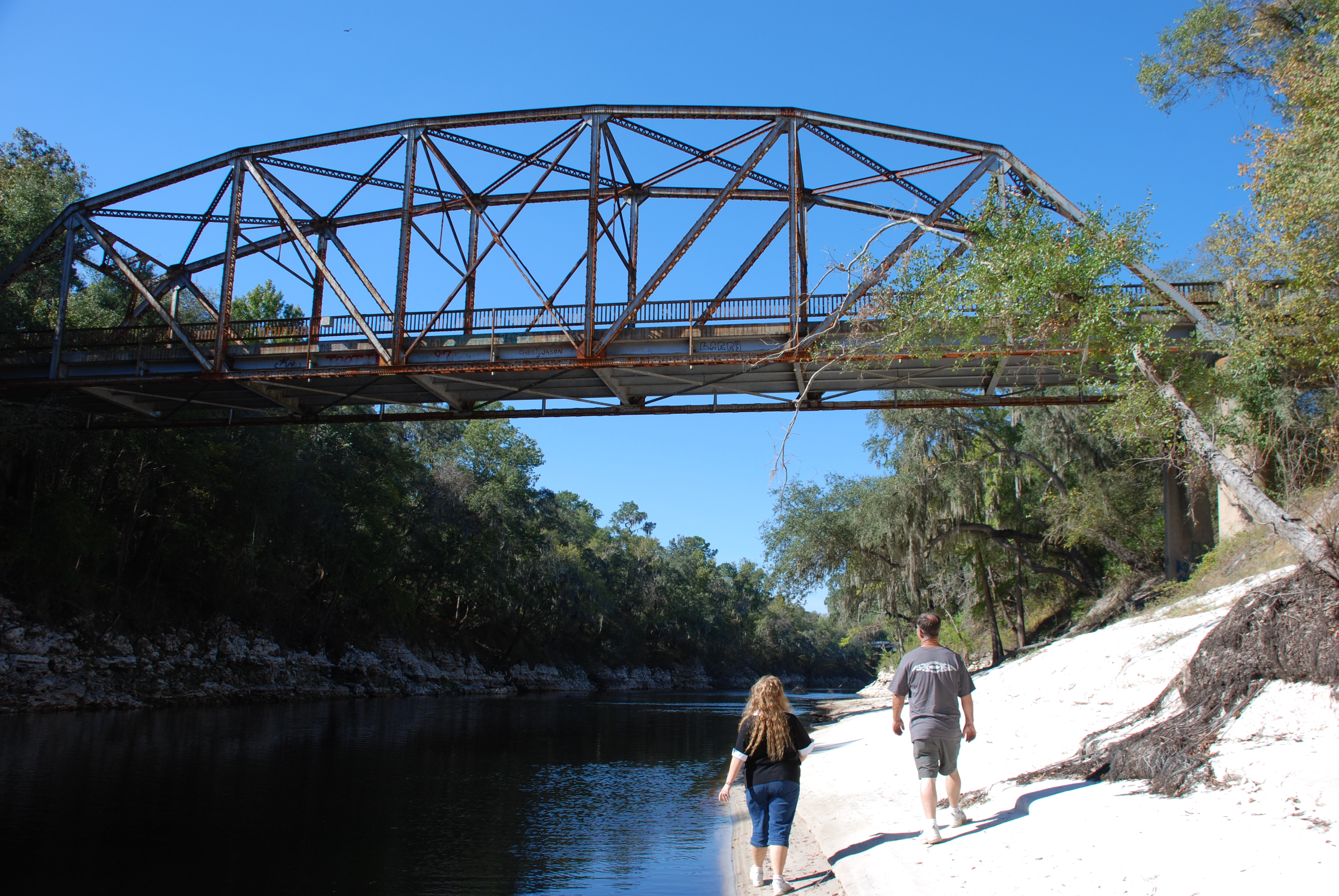 Suwannee springs bridge spans the Suwannee River at Suwannee springs. Built in the 1930s and a part of U.S. Highway 129. It was closed in 1974 when I new U.S. Highway 129 was built with a new bridge.